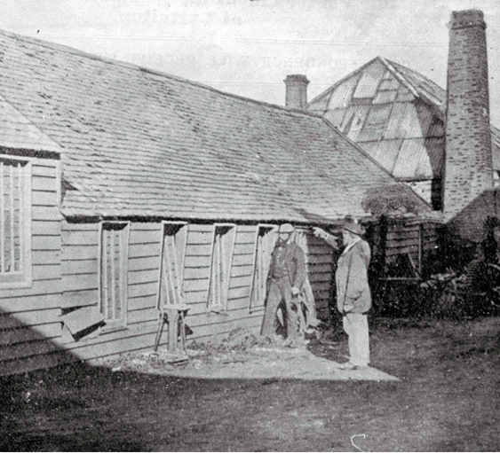 Andersons' Foundry on the south side of Cashel Street. Pictured is John Anderson and his foreman, Mr A. Kirk.